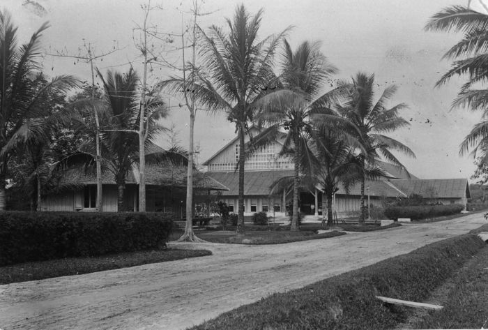 Office and fermentation shed on the Tanah Radja plantation